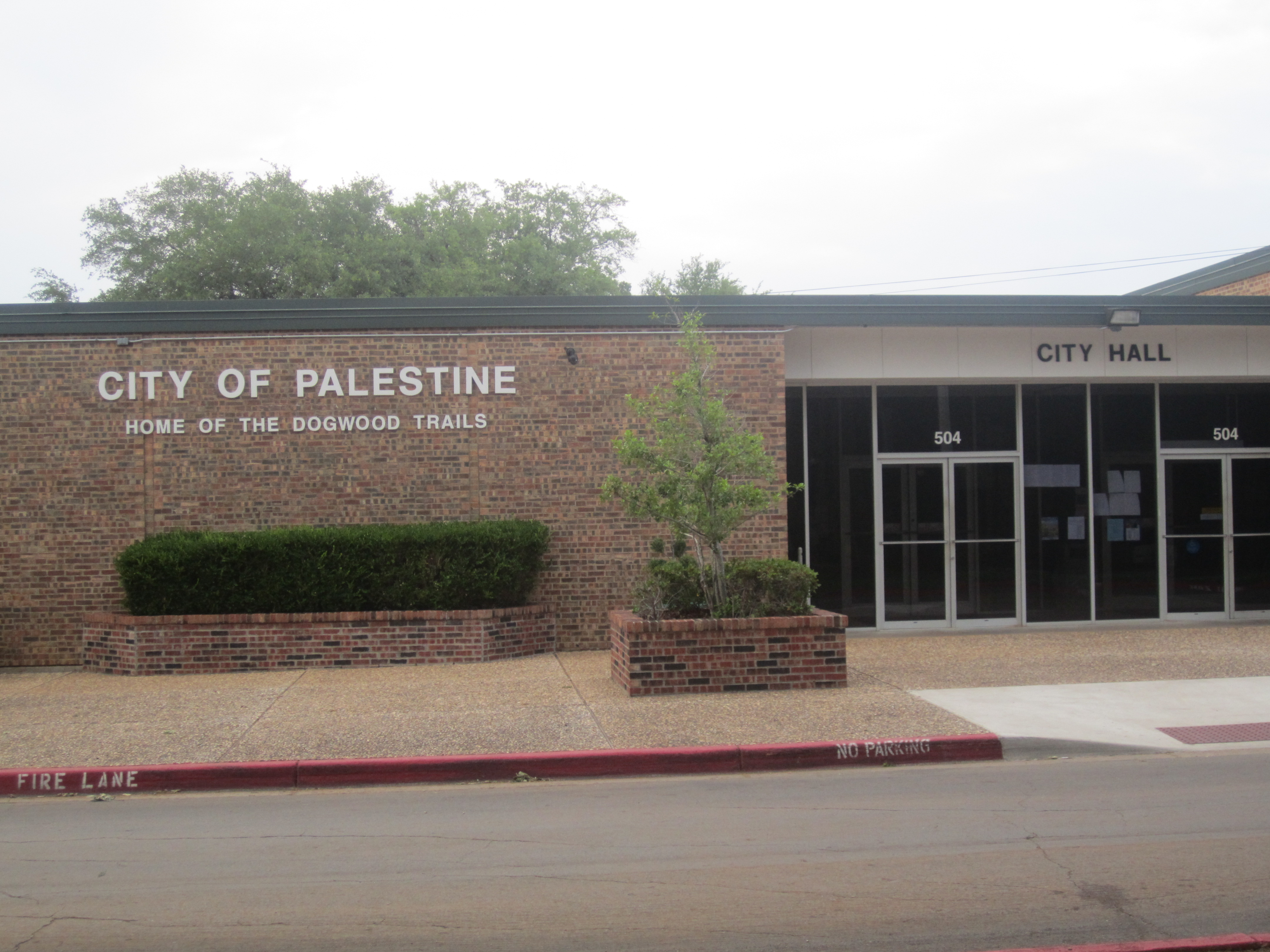 I took photo with Canon camera of city hall in Palestine, TX.